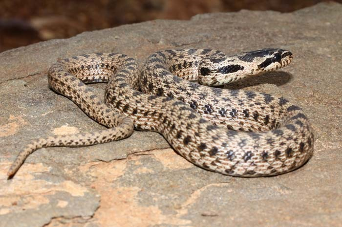 Elaphe_sauromates_by_Omid_Mozaffari(3)